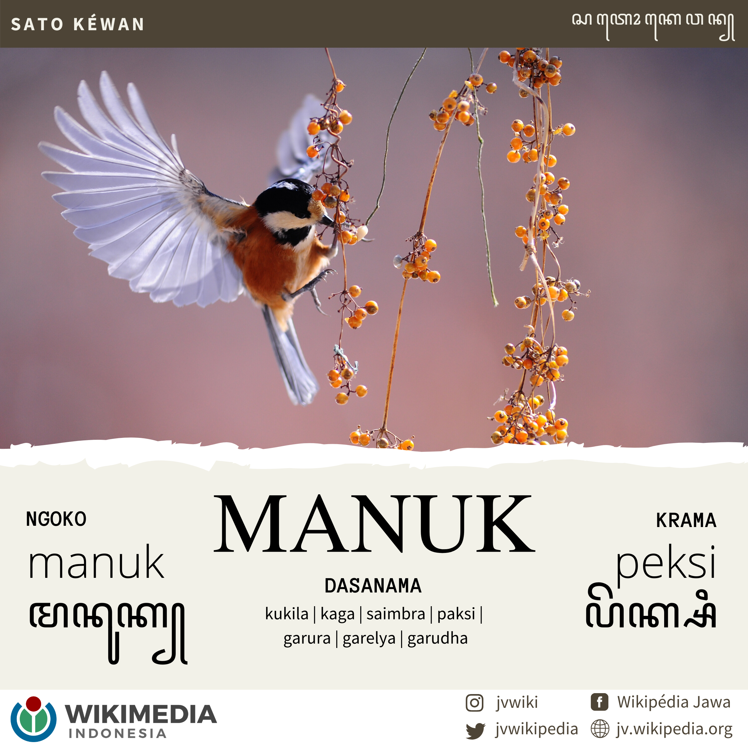 Synonym of bird in Javanese